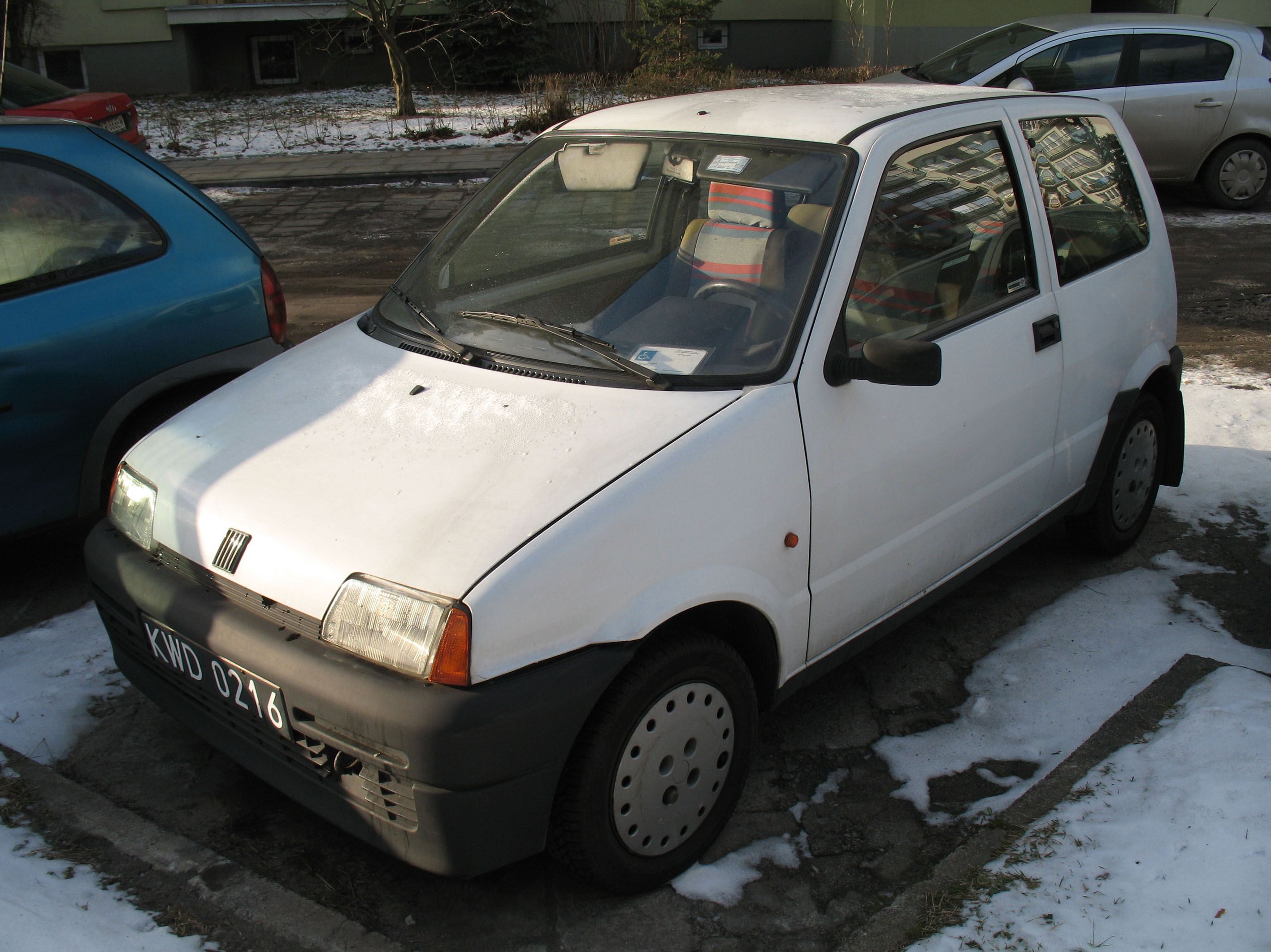 White Fiat FSM Cinquecento car in Kraków, Poland.